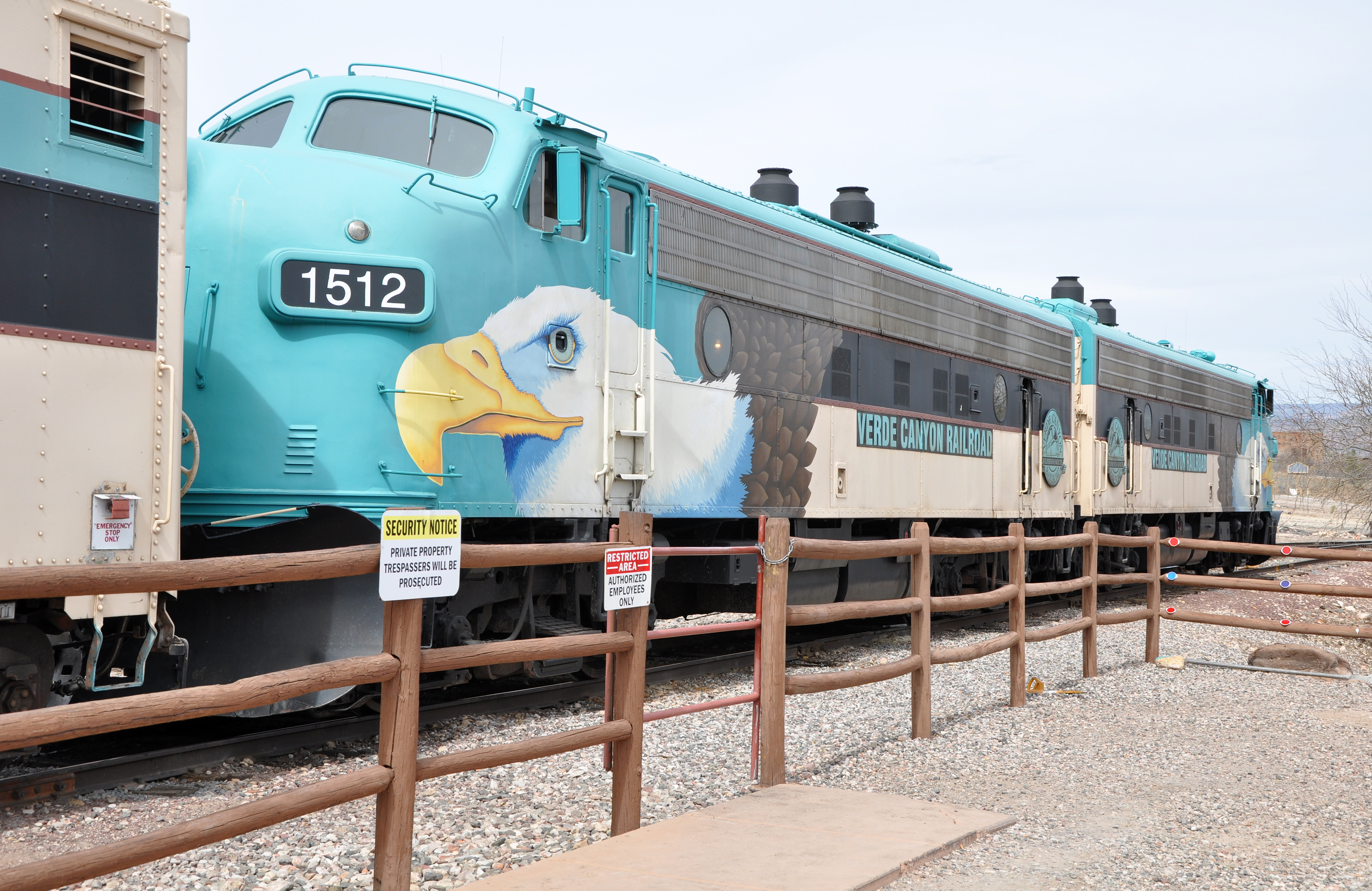 The Verde Canyon Railroad, an excursion train, waits in the station at Clarkdale in the U.S. state of Arizona.